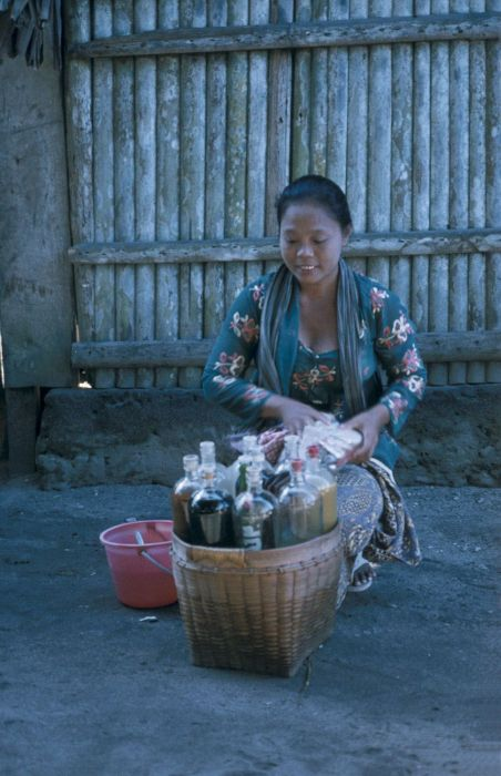 Woman selling medicines, Tulehu